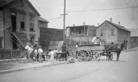 three African American men moving furniture with a horse and wagon while young Caucasian boys stand nearby on the sidewalk in front of a house watching in Chicago, Illinois.